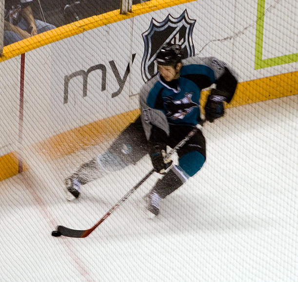 San Jose Sharks player, Grant Stevenson